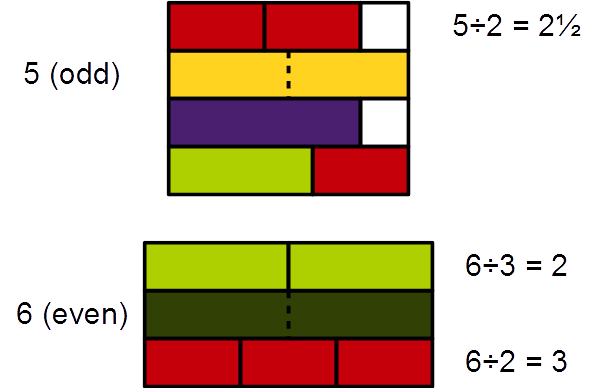 Parity (odd or even) of the numbers 5 and 6 depicted using Cuisenaire rods. 5 can't be evenly divided in two by any two rods of the same color/length, while 6 can be evenly divided in two by 3.